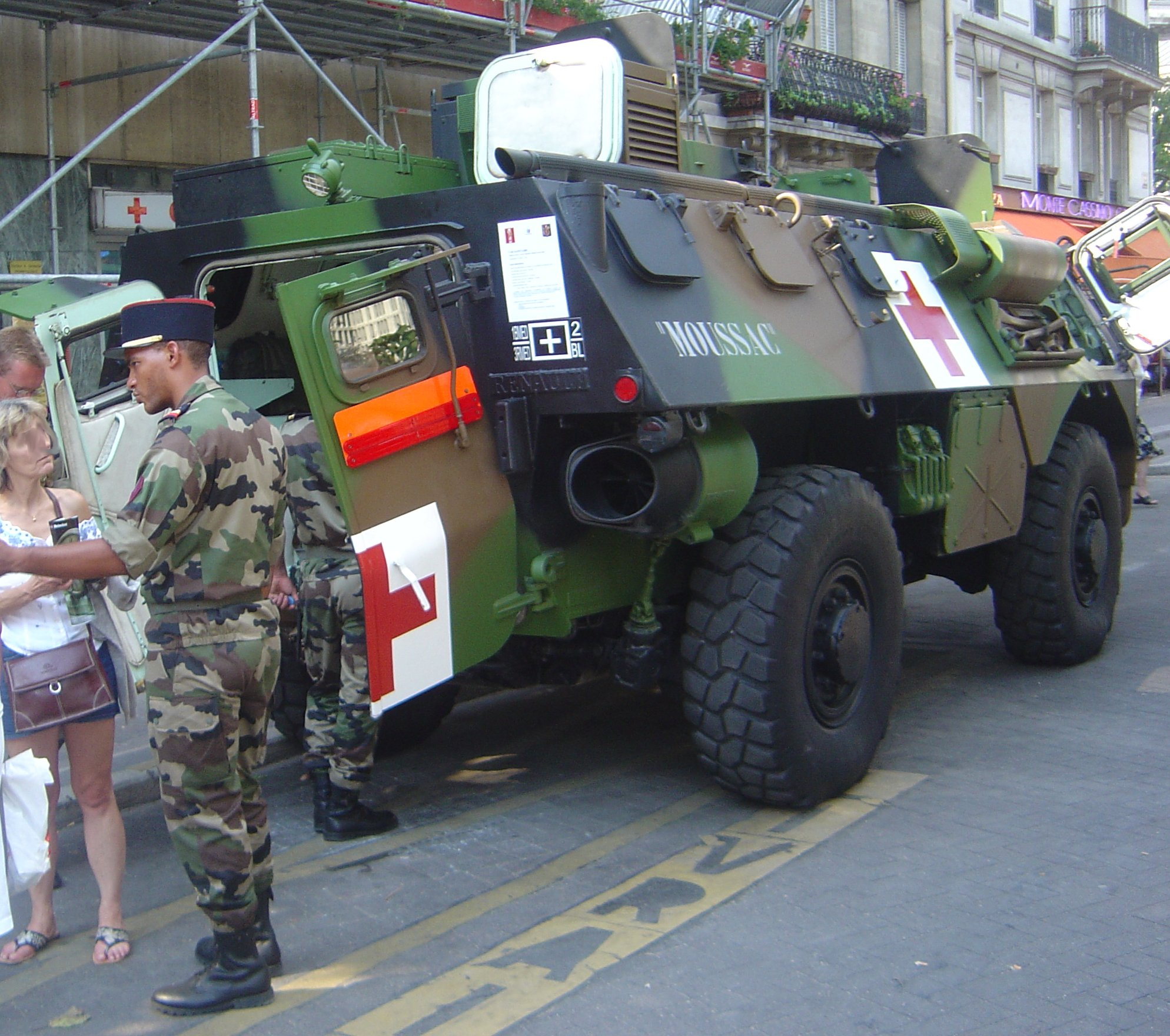 VAB (medical transport version)